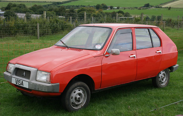 1980 Citroën Visa with the 652cc boxer-two engine